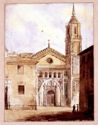 Engaving of the front facade of the church of the monastery of San Pedro Mártir, Calatayud, by Valentín Carderera y Solano. Dating: 1820 - 1850. Museo Lázaro Galdiano.